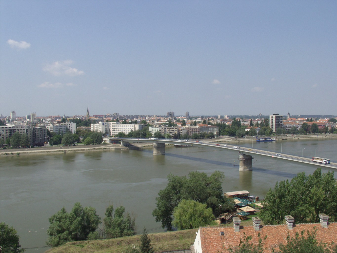 Danube at Novi Sad, Serbia